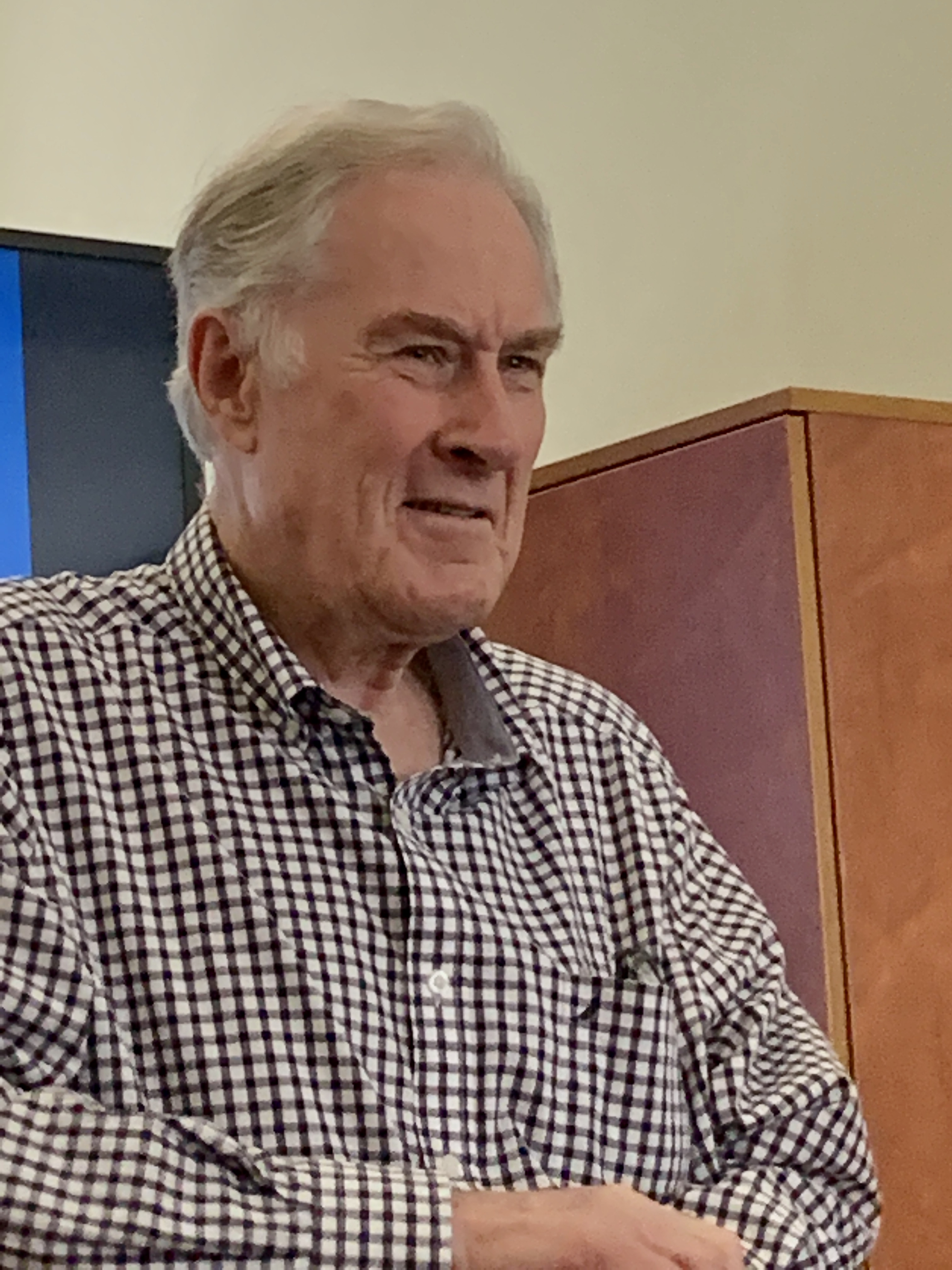 Denver Beanland presenting a talk on "Three Colonial Queensland Banks" at the Commissariat Store, Brisbane, Australia, October 2019